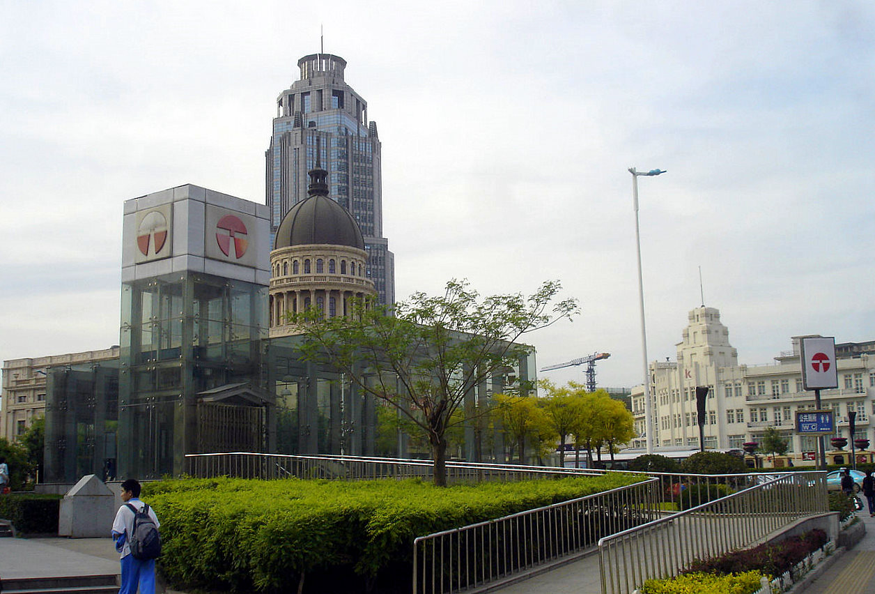 XIAOBAILOU ST. (LINE 1)